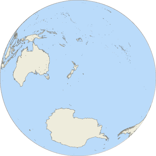 Map of Earth's hemispheres — water hemisphere. Created by User:Reisio with GMT for water hemisphere article.